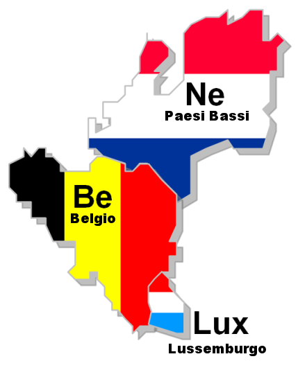 Italian version of File:Benelux.png